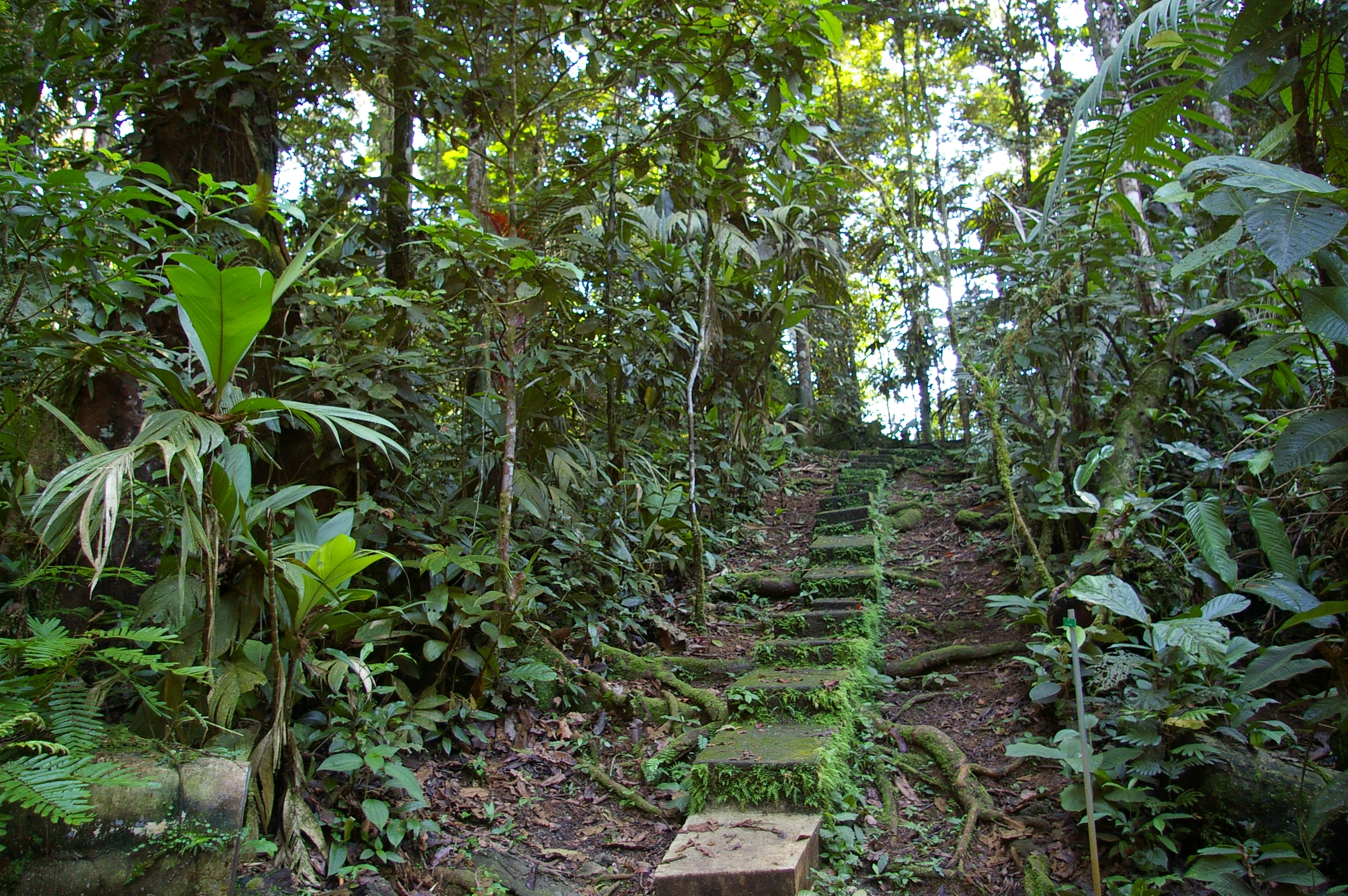 Forest at La Selva Biological Station